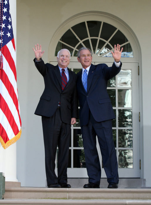 Republican presidential nominee Senator John McCain with President George W. Bush on the West Colonnade at the White House, Wednesday, March 5, 2008.